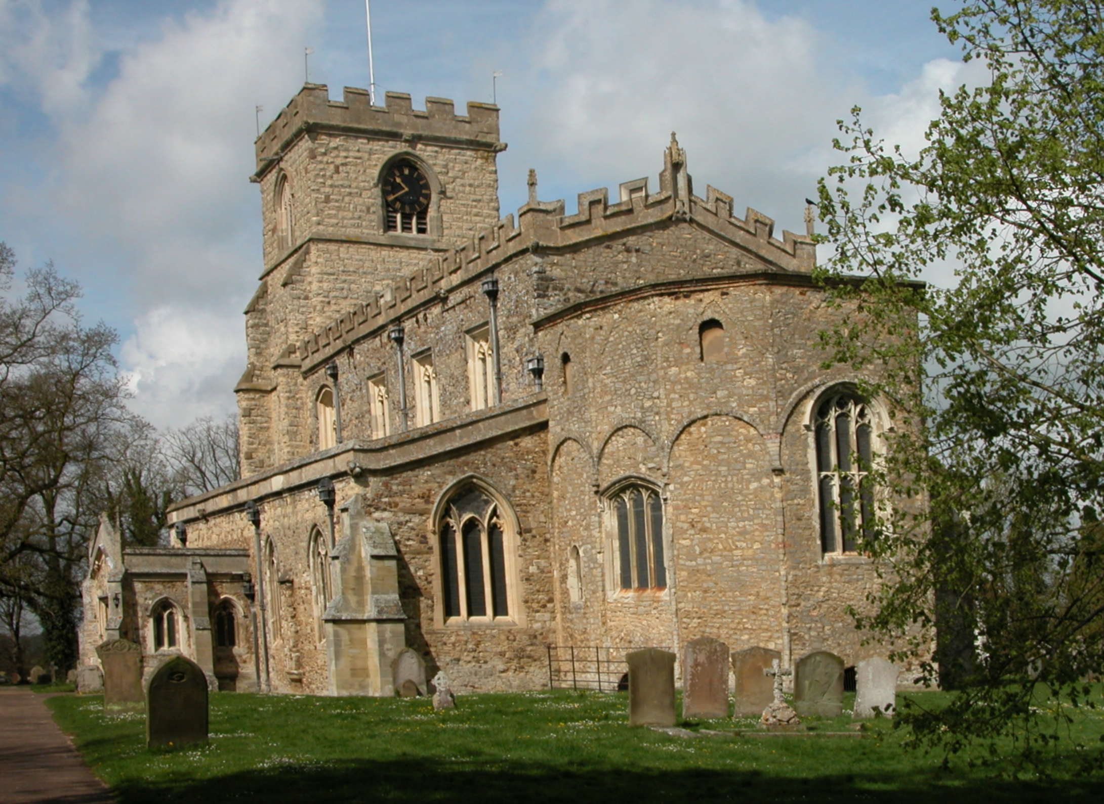 Church of England parish church of All Saints Church, Wing, Buckinghamshire, England. View from the southeast, showing the Saxon apsidal chancel